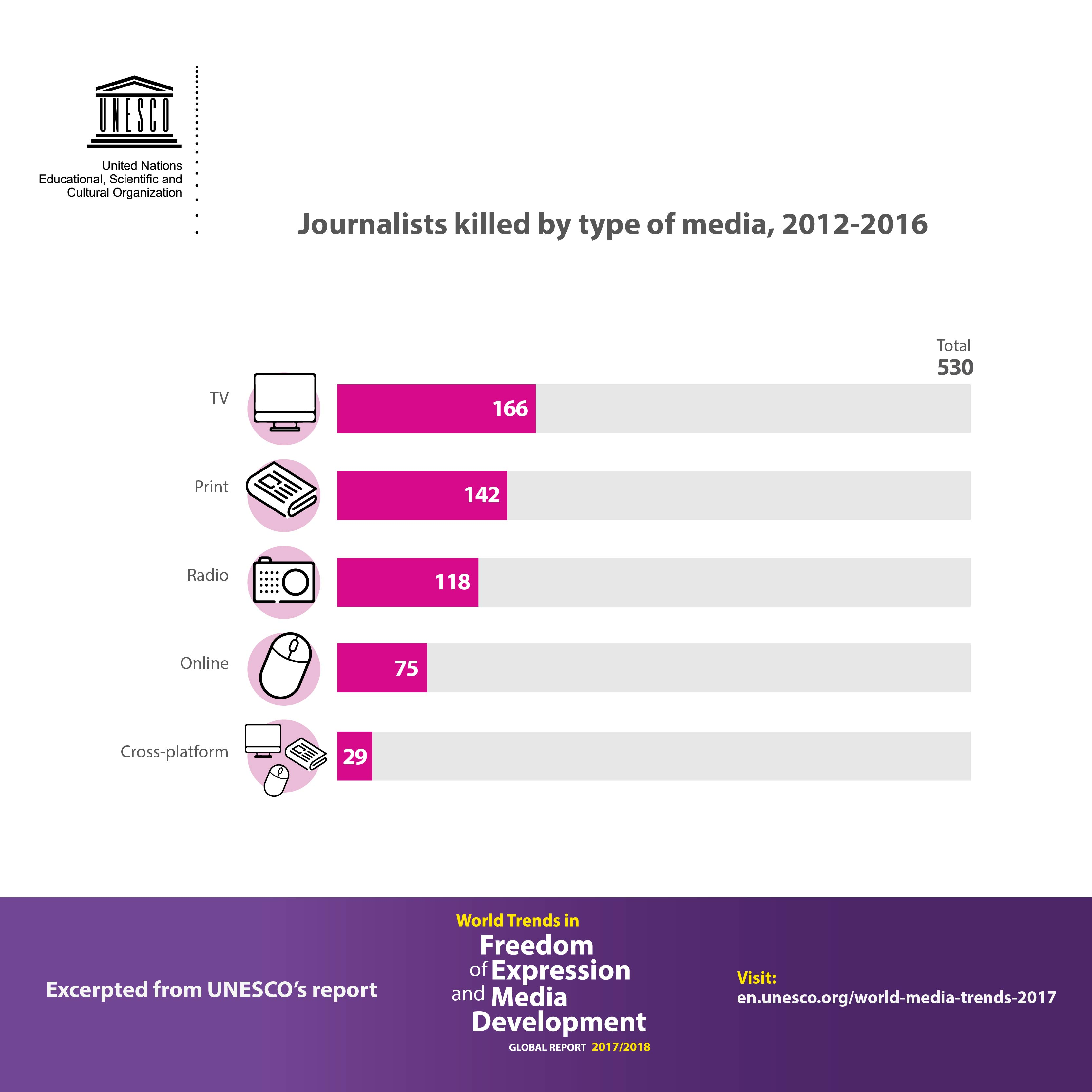 UNESCO's data: journalists killed by type of media 2012-2016